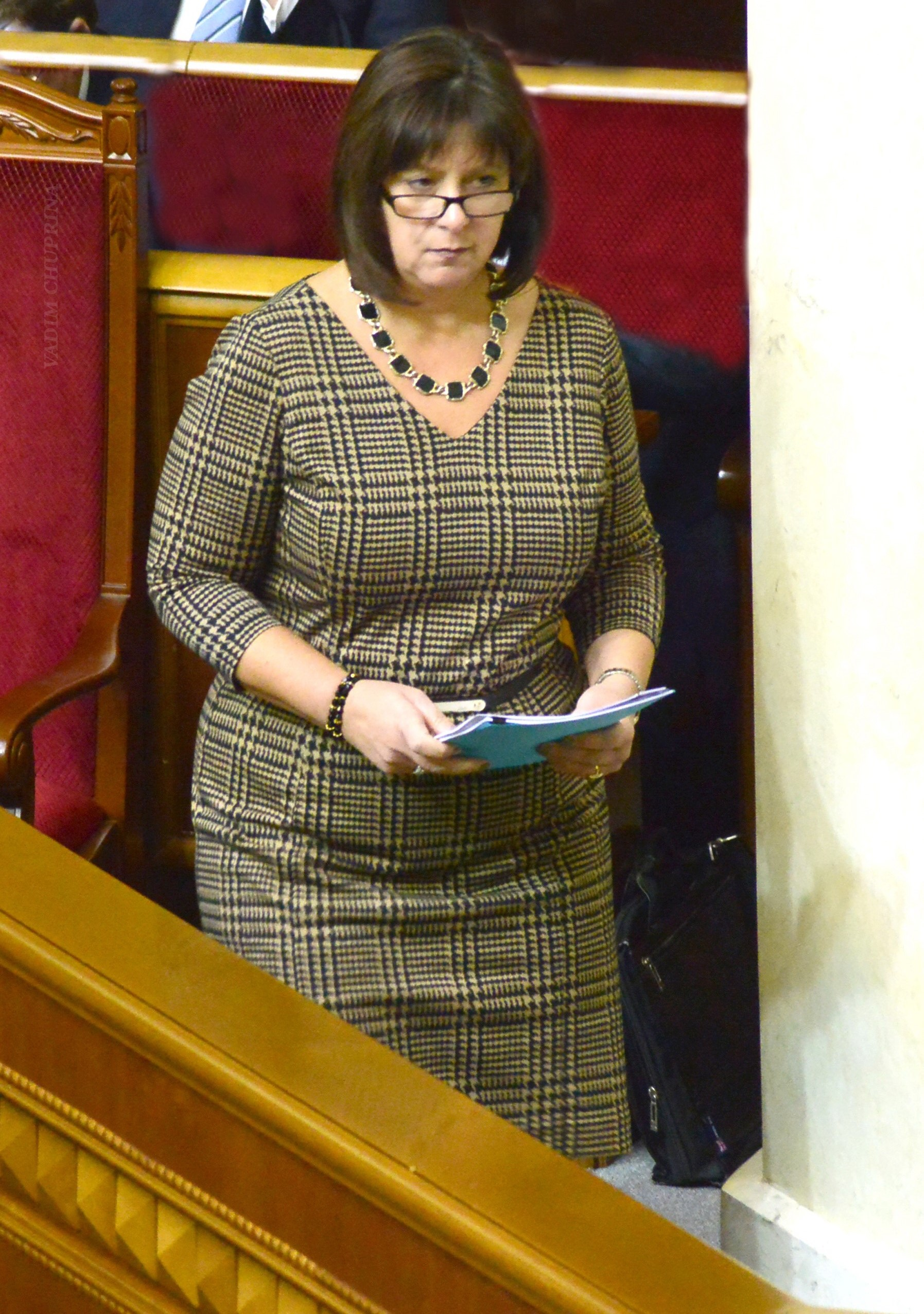 Ukrainian politicians VADIM CHUPRINA